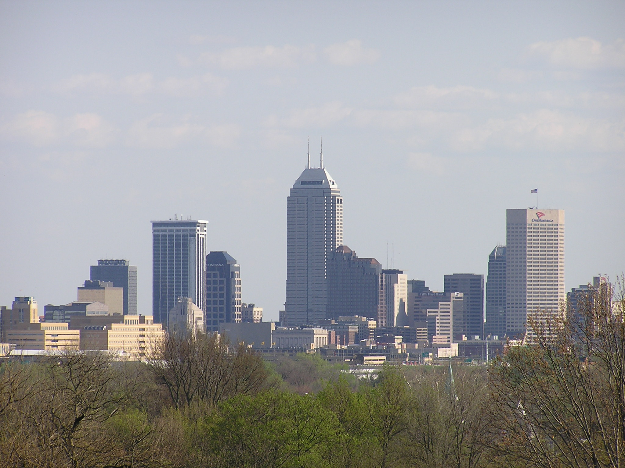 I took this photo from Crown Hill Cemetery which is approximately 4 miles north of downtown Indianapolis.